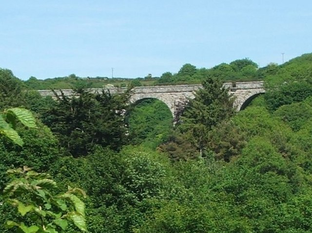 Cober Valley viaduct. This fine granite viaduct carried the former Helston branch line over the River Cober until the line closed in October 1964. An attempt to reopen at least part of the line is currently underway - for details.